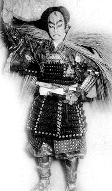 Yaozō Ichikawa VII (1860–1936) as Takechi Mitsuhide in Ehon Taikō-ki